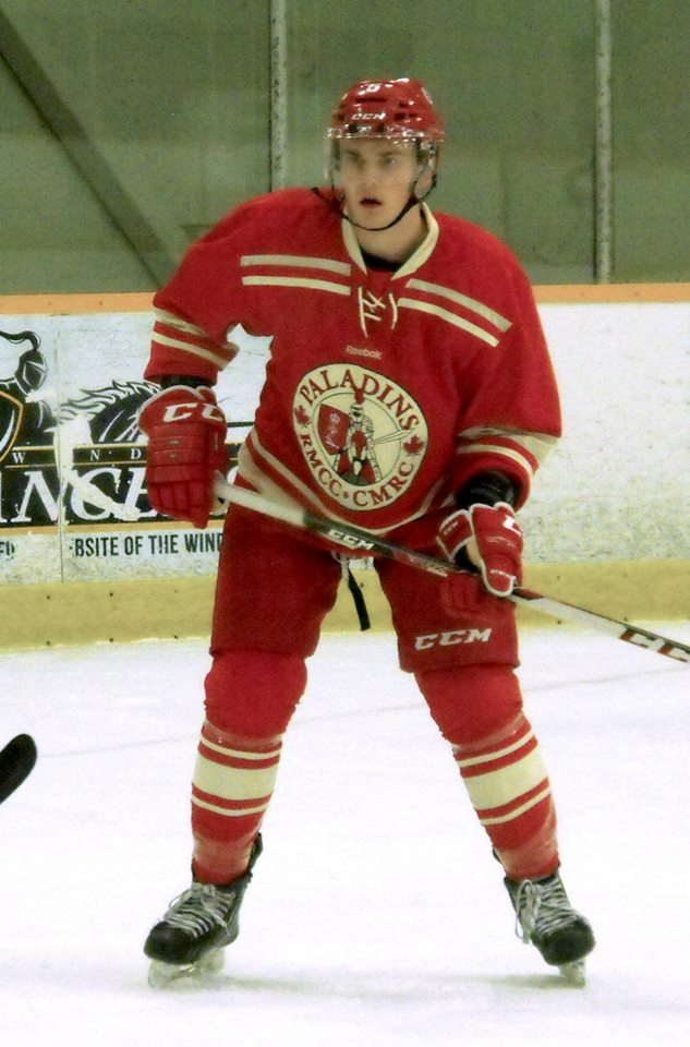 Photo taken by Devan Mighton of CIS men's hockey during 2014.15 season.